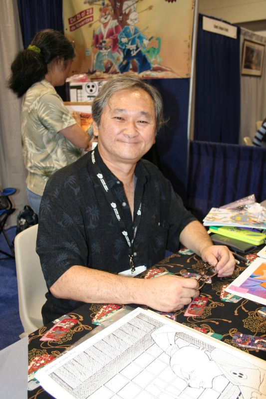 Stan Sakai, Eisner Award-winning comic book creator.